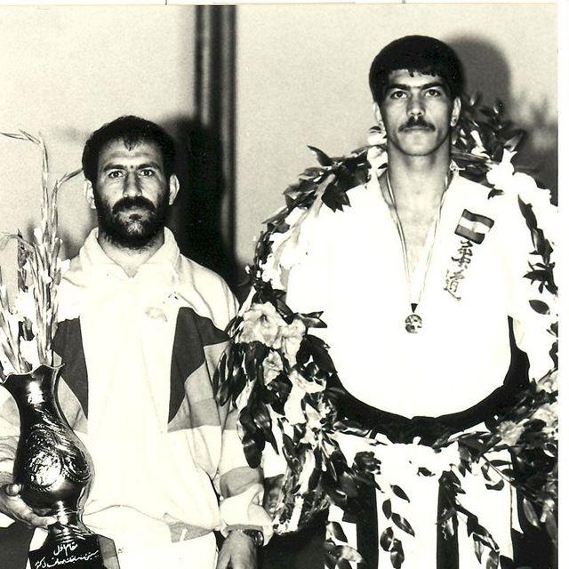 بازگشت زین العابدین حقانی اولین دارنده مدال طلای قهرمانی آسیا به میهن